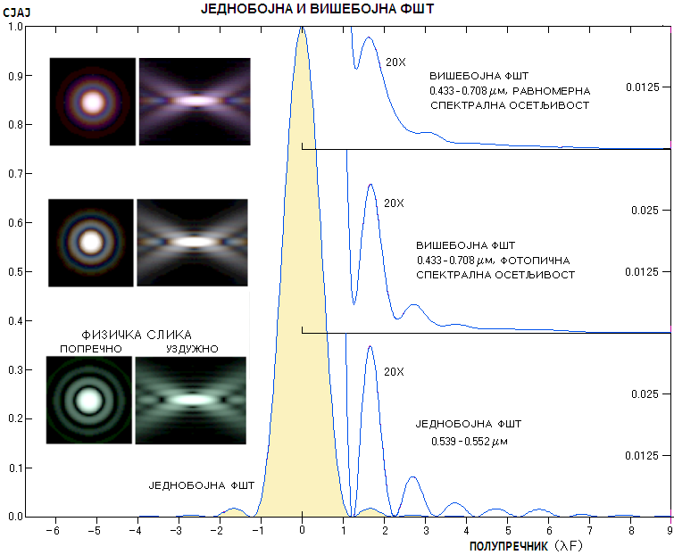 ПОРЕЂЕЊЕ ВИШЕБОЈНИХ СА ЈЕДНОБОЈНОМ ФШТ